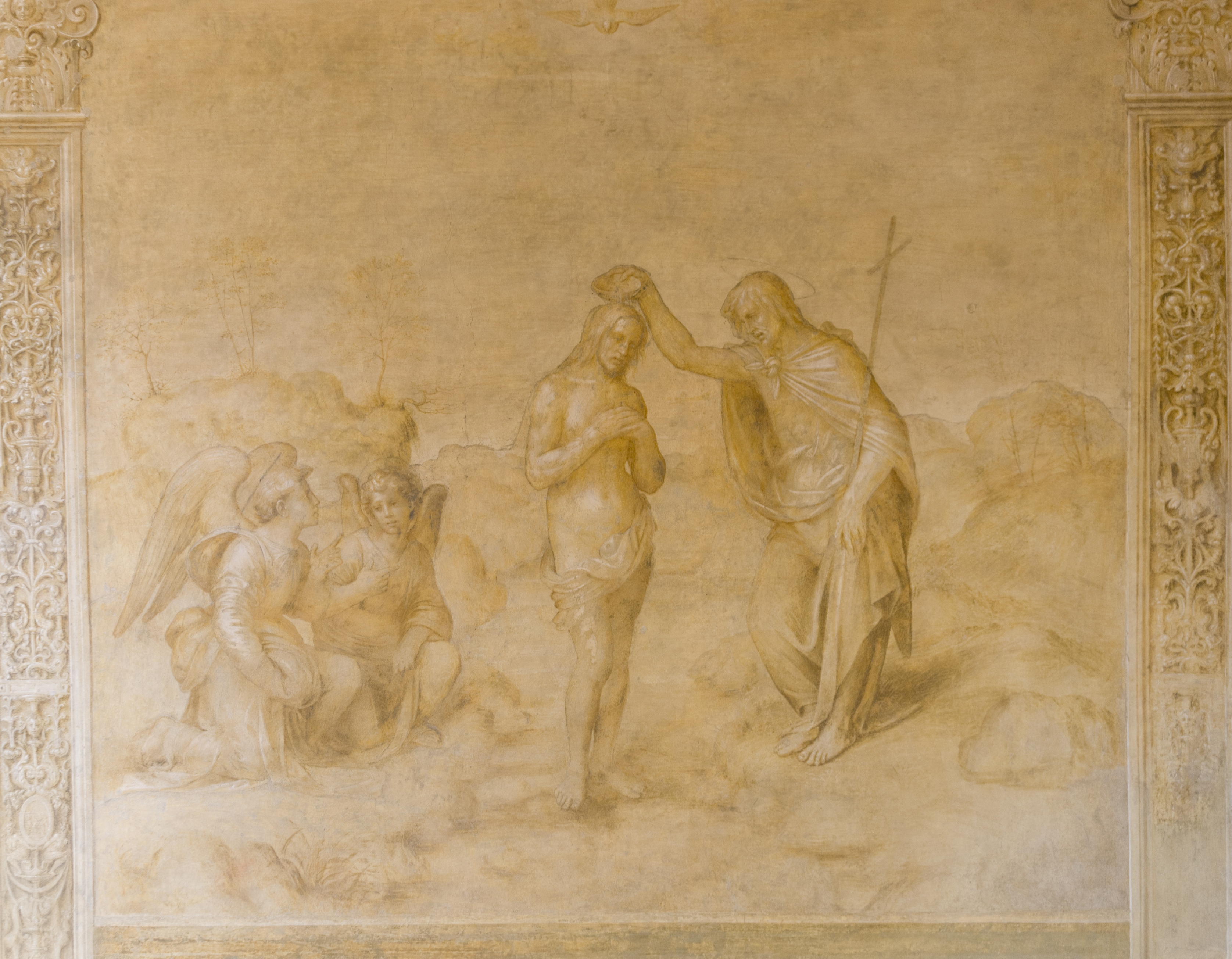 "Baptism of Christ" by Francesco di Cristofano